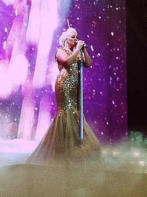 Claire Richards performing in Newcastle 2012 Other information This is 100% my own photo, I still have the original on my phone if this is an issue for wikipedia.